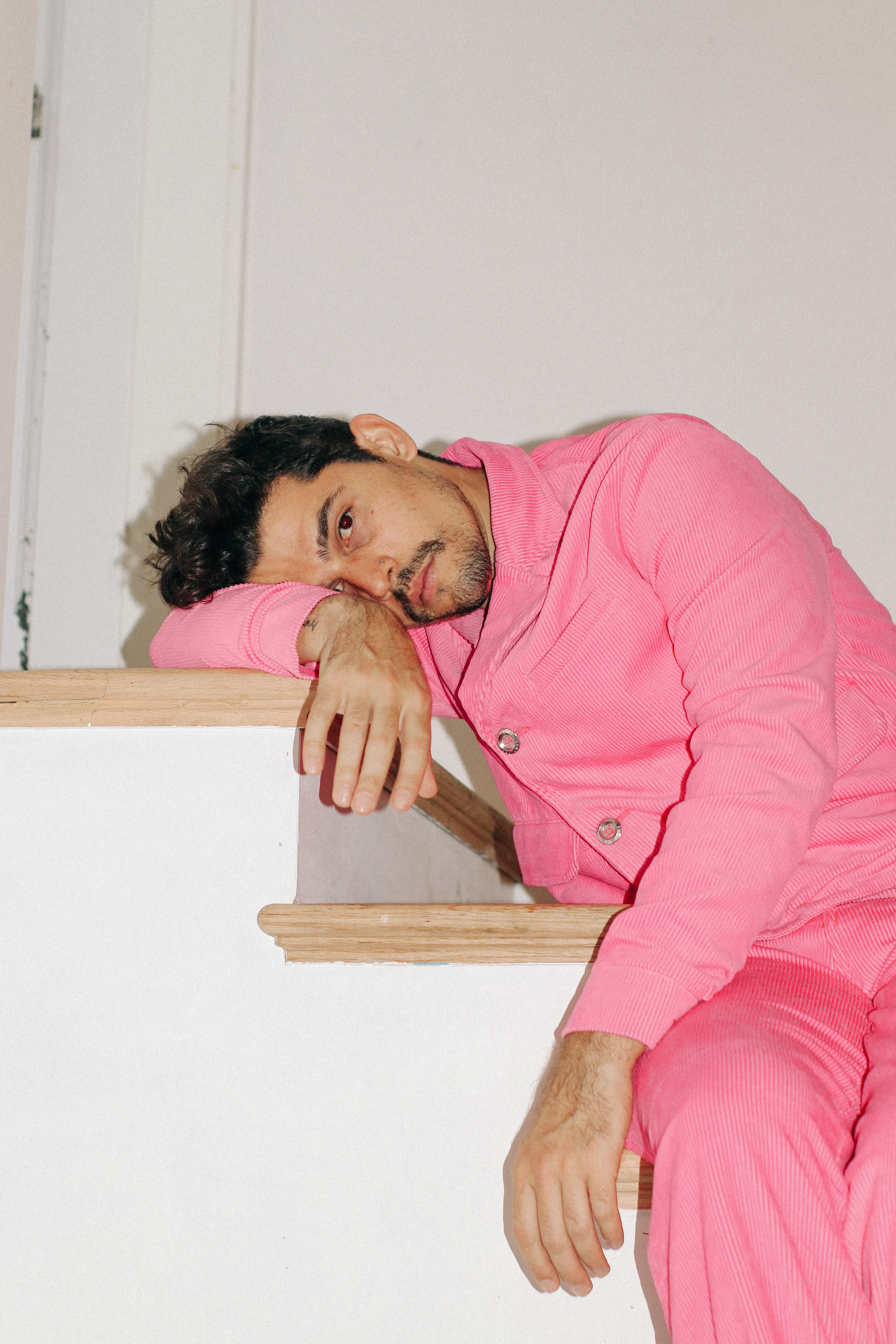 Nick Monaco